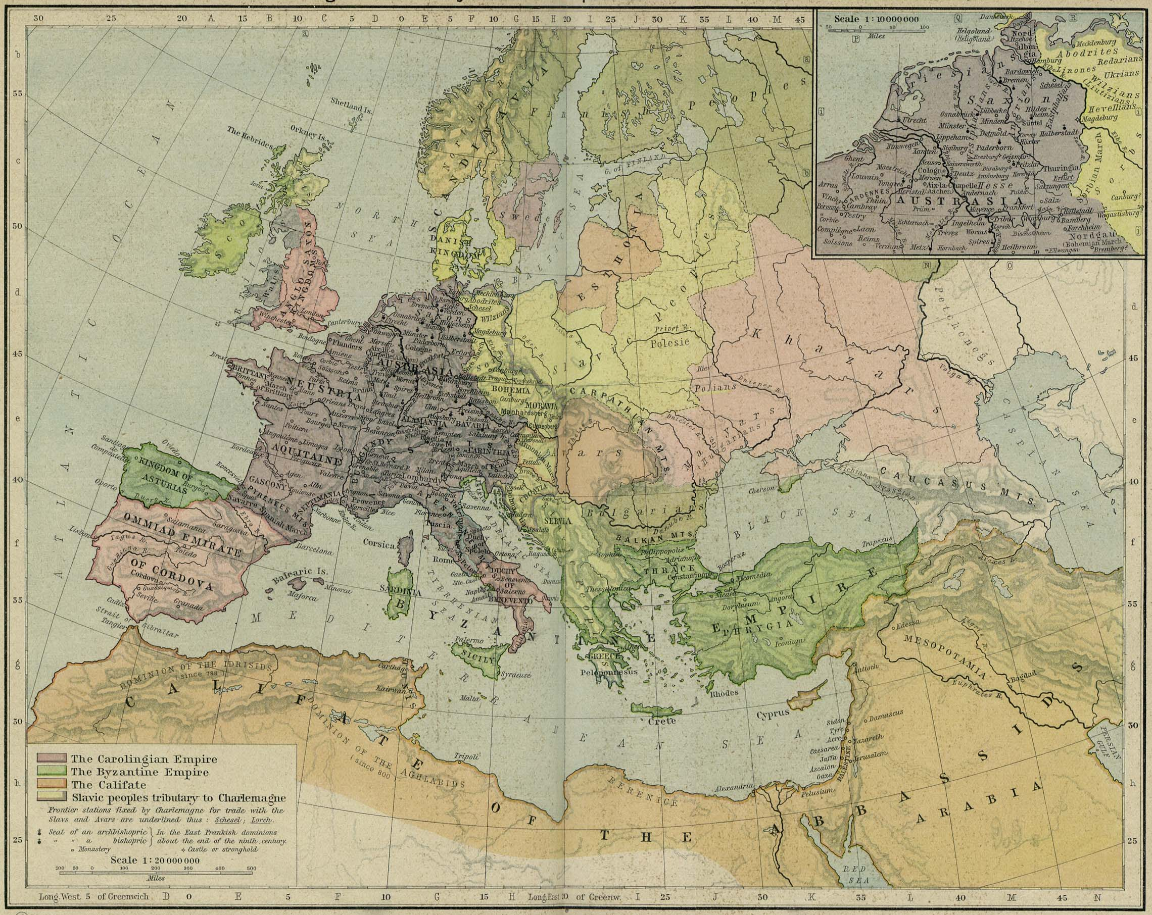 Europe, 814